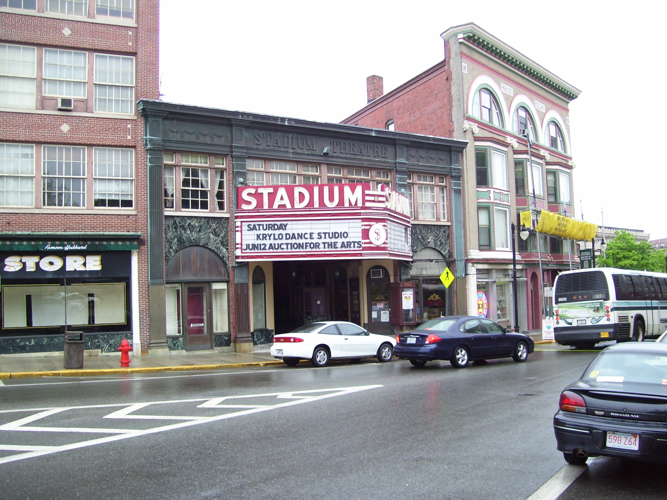 This is my 2008 photo of the Stadium Theater Building in Woonsocket Rhode Island.